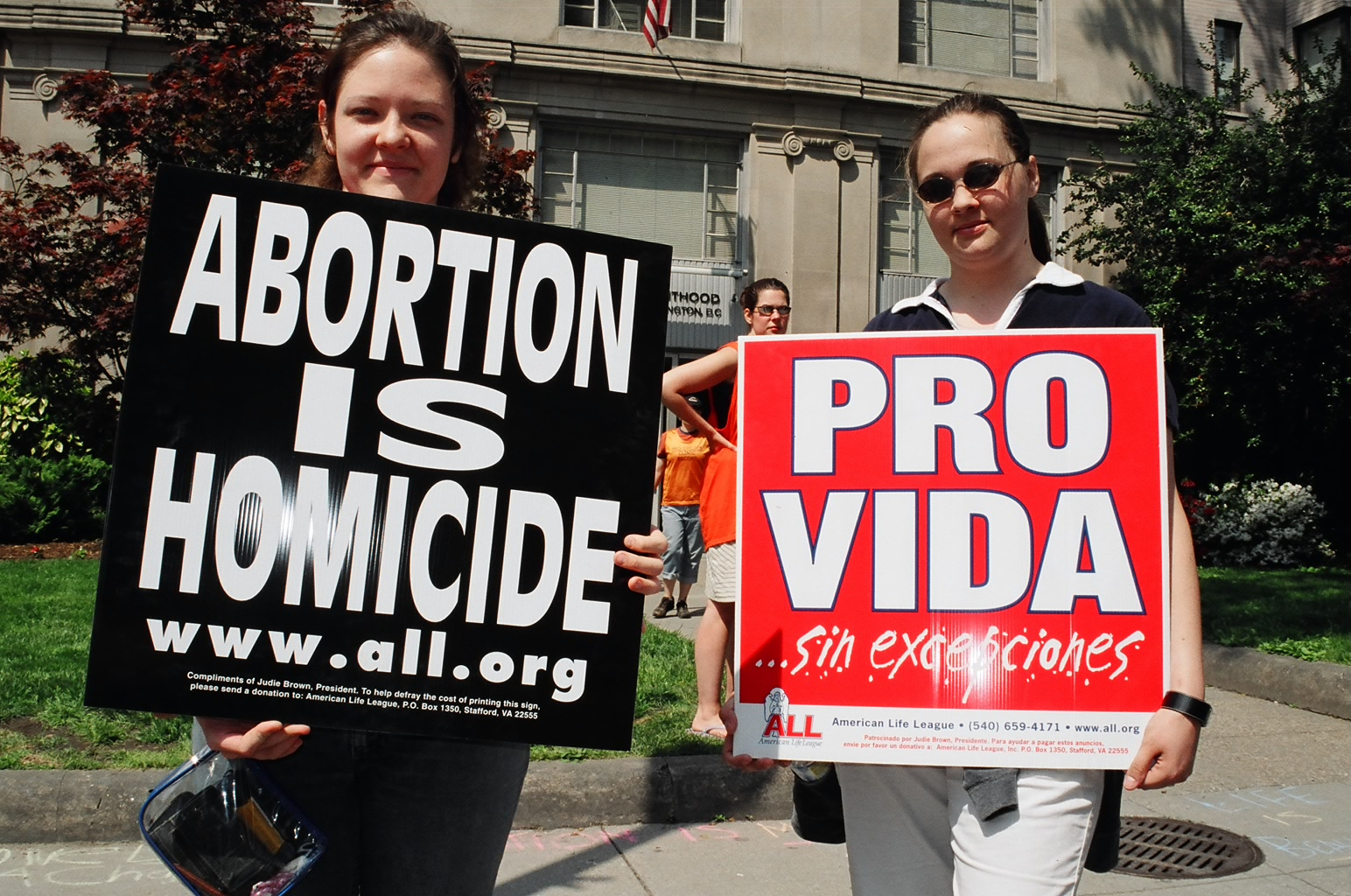 March For Women's Lives (Pro-Life) Counter Demonstration at Planned Parenthood at 1108 16th Street, NW, Washington DC on Sunday, 25 April 2004 by Elvert Barnes Photography March For Women's Lives at Wikipedia at